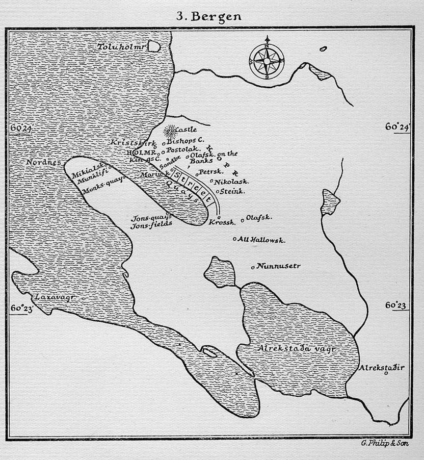 Map of Bergen (XIIIth century) drawn late XIXth century by G.Philip & son. Nouns with "-sk" endings are or were churches. Alrekstadir is know to be the first farm built in the area.